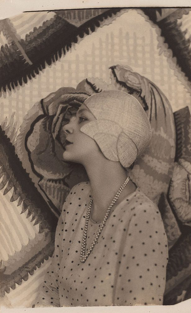 Doris Zinkeisen: New Idea portrait with patterned backgroundDoris Zinkeisen, photographed in 1929 by Harold Cazneaux. This photograph was one of Cazneaux's 'new idea' series of portraits for ‘The Home’ magazine, which placed subjects against painted backdrops. Cazneaux was its chief photographer. ‘The Home’ was launched in Sydney in 1920 and styled after Vogue.